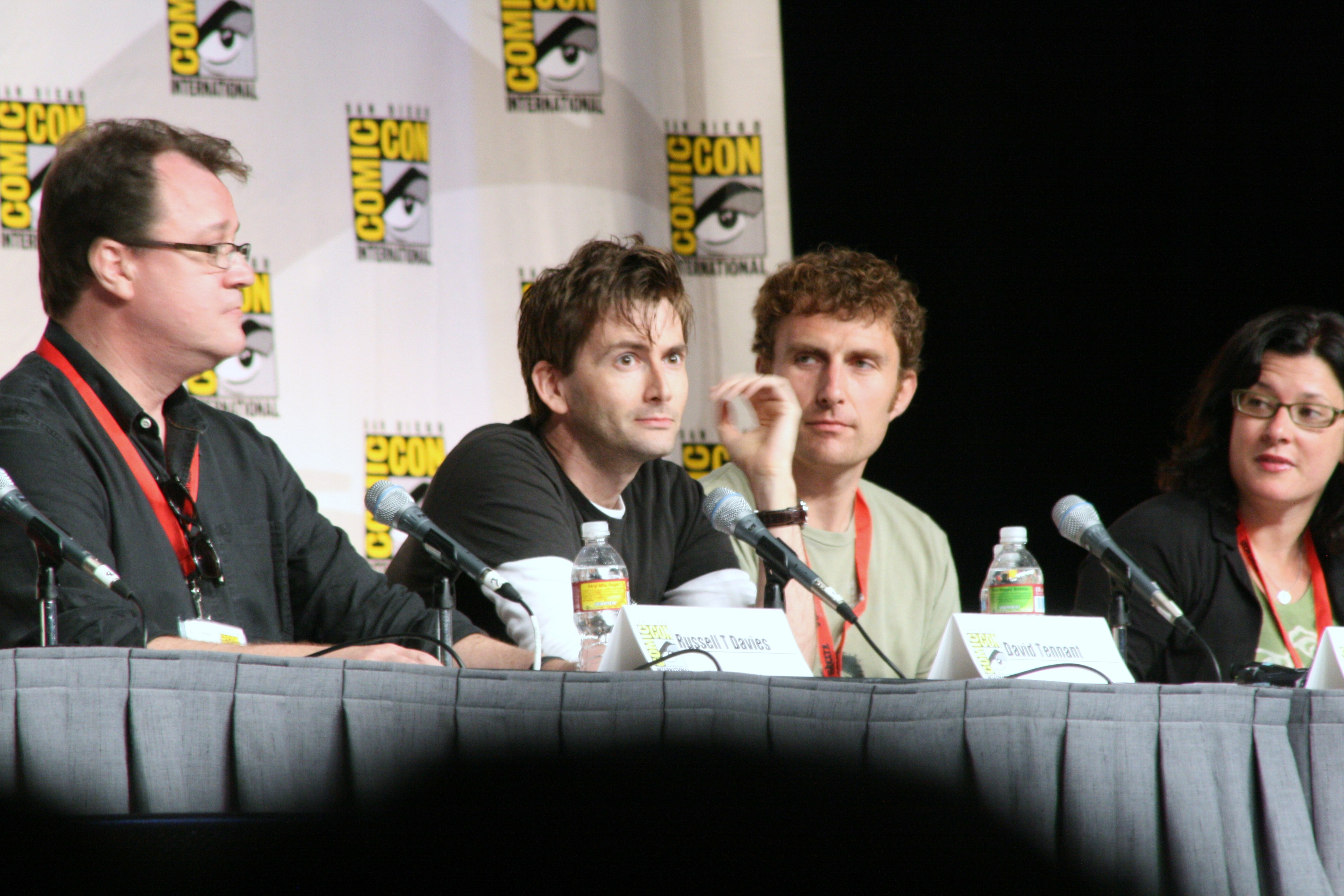 Actor David Tennant with Russell T Davies (left), Euros Lyn (centre right) and Julie Gardner (right) at Comic-Con 2009 (26 July 2009).